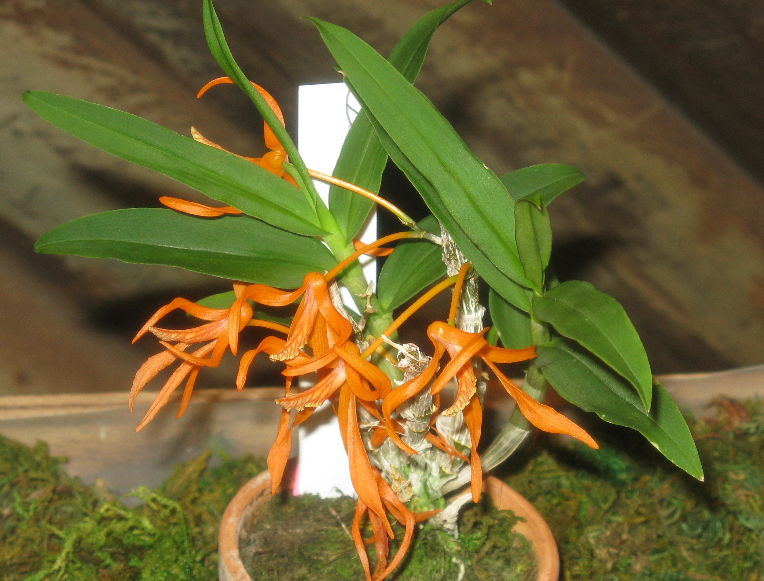 Scientific name Dendrobium lamyaiae Place:Osaka Prefectural Flower Garden,Osaka,Japan